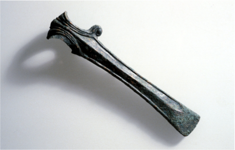 Battle aze from the Middle Bronze age found in Tel Rumeida (Hebron) Israel/Palestine